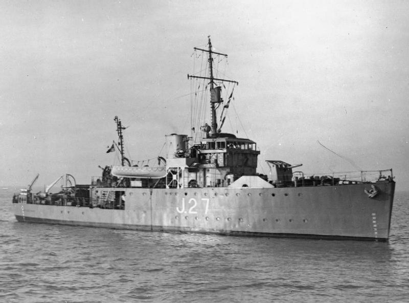 HMS Blackpool Underway.